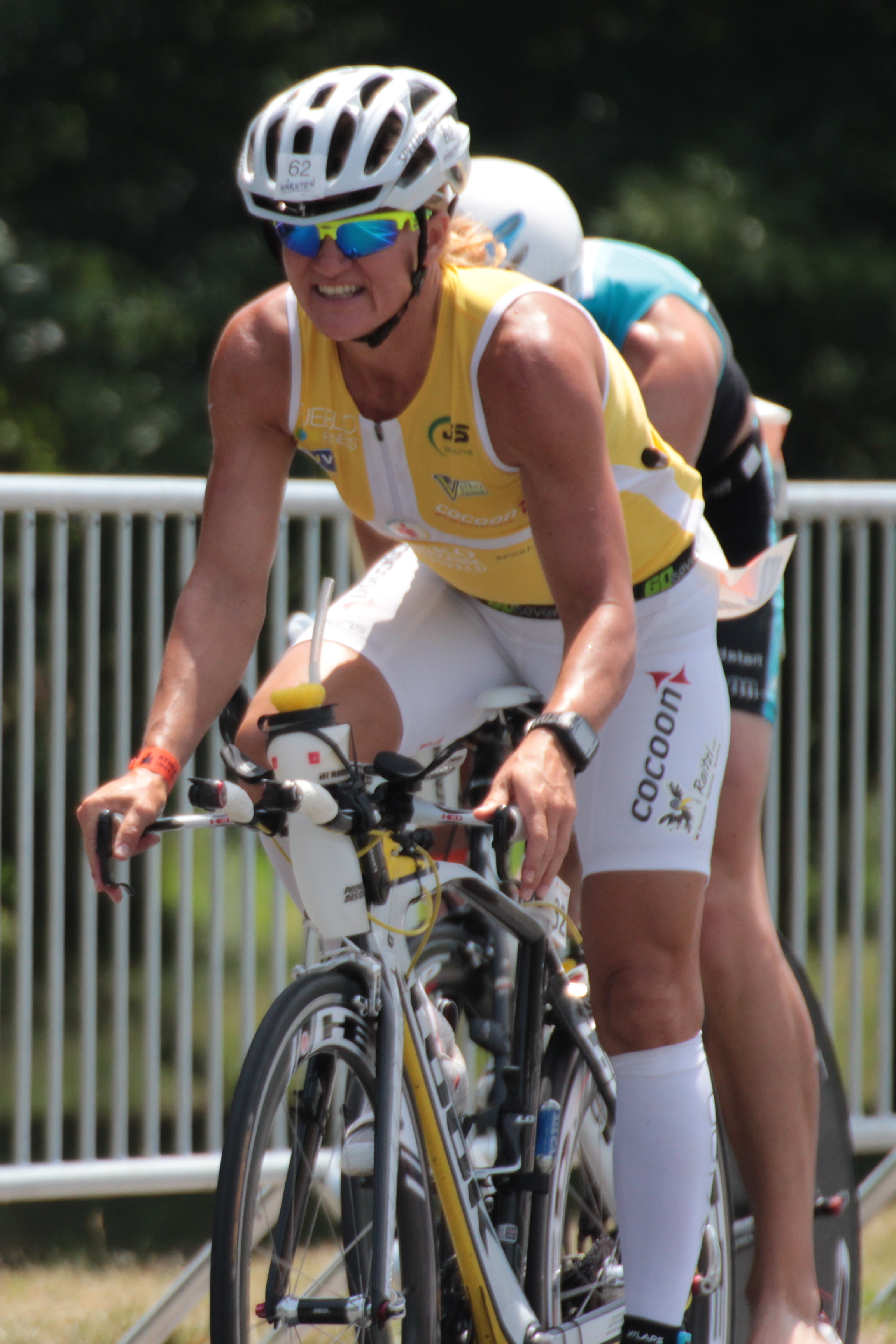 Michaela Rudolf arriving in T2 at Ironman Austria 2012